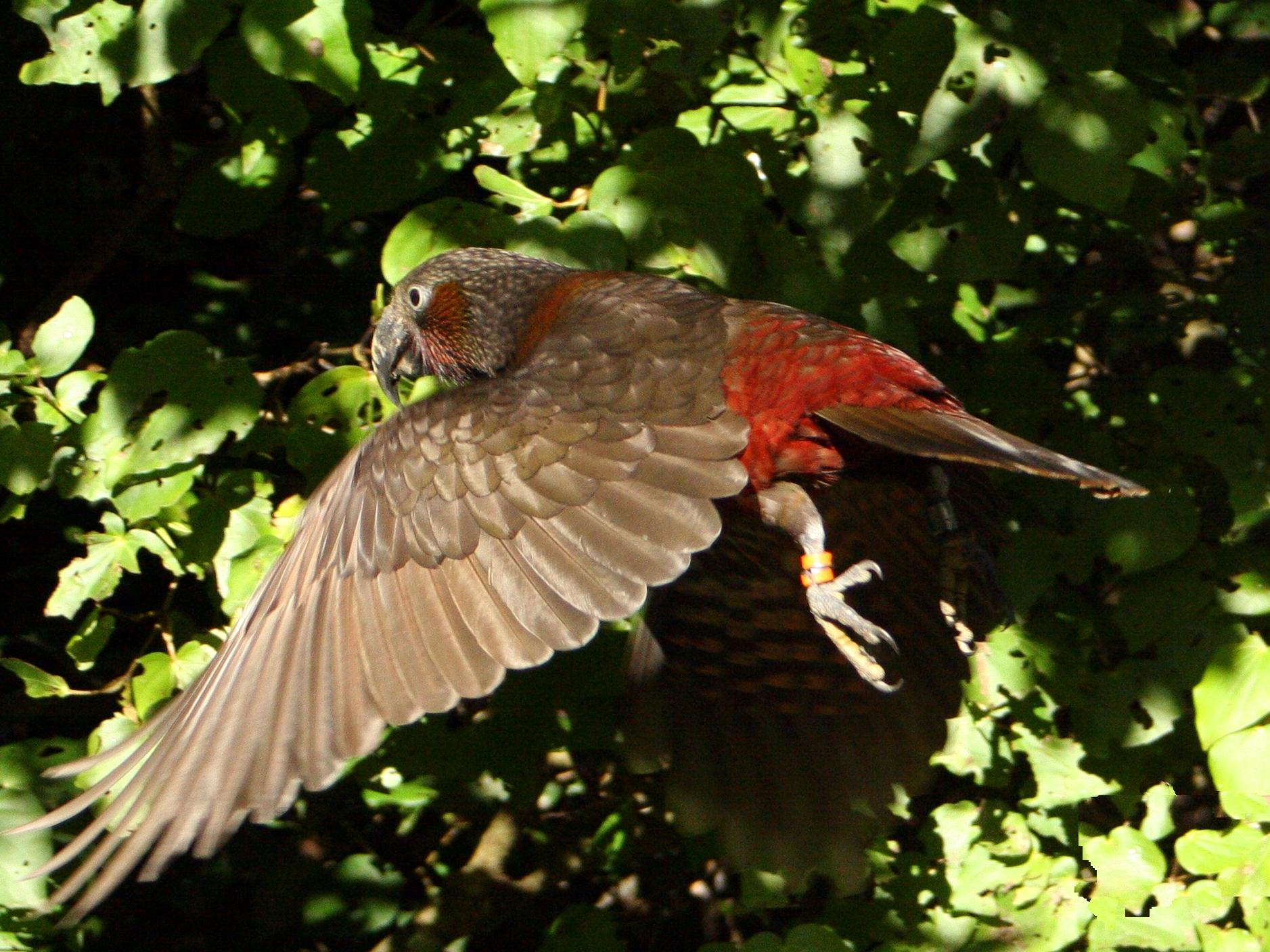 Kaka in flight. Karori Wildlife Sanctuary, Wellington, New Zealand.